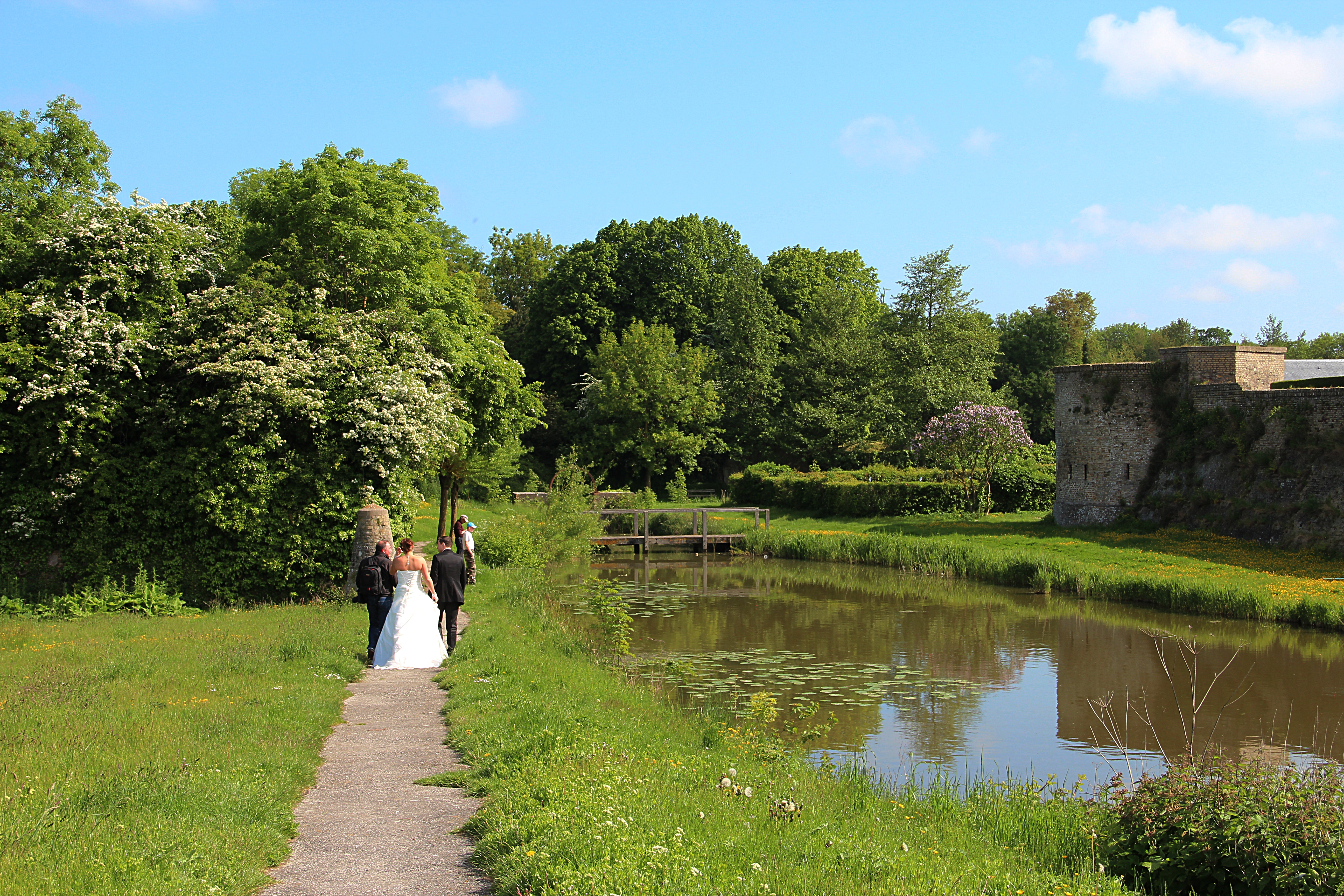 The moats bordering the north-western ramparts of Bergues (Nord department, France).